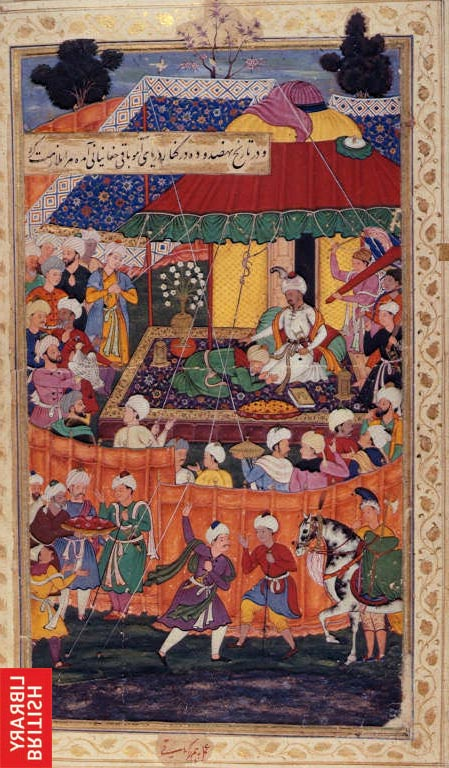 The "Memoirs of Babur" or Baburnama are the work of the great-great-great-grandson of Timur (Tamerlane), Zahiruddin Muhammad Babur (1483-1530). The Baburnama tells the tale of the prince's struggle first to assert and defend his claim to the throne of Samarkand and the region of the Fergana Valley. After being driven out of Samarkand in 1501 by the Uzbek Shaibanids, he ultimately sought greener pastures, first in Kabul and then in northern India, where his descendants were the Moghul (Mughal) dynasty ruling in Delhi until 1858. The miniatures are from an illustrated copy of the Baburnama prepared for the author's grandson, the Mughal Emperor Akbar. It is worth remembering that the miniatures reflect the culture of the court at Delhi; hence, for example, the architecture of Central Asian cities resembles the architecture of Mughal India. Nonetheless, these illustrations are important as evidence of the tradition of exquisite miniature painting which developed at the court of Timur and his successors. Timurid miniatures are among the greatest artistic achievements of the Islamic world in the fifteenth and sixteenth centuries. Illustrations of Mughals from the Baburnama